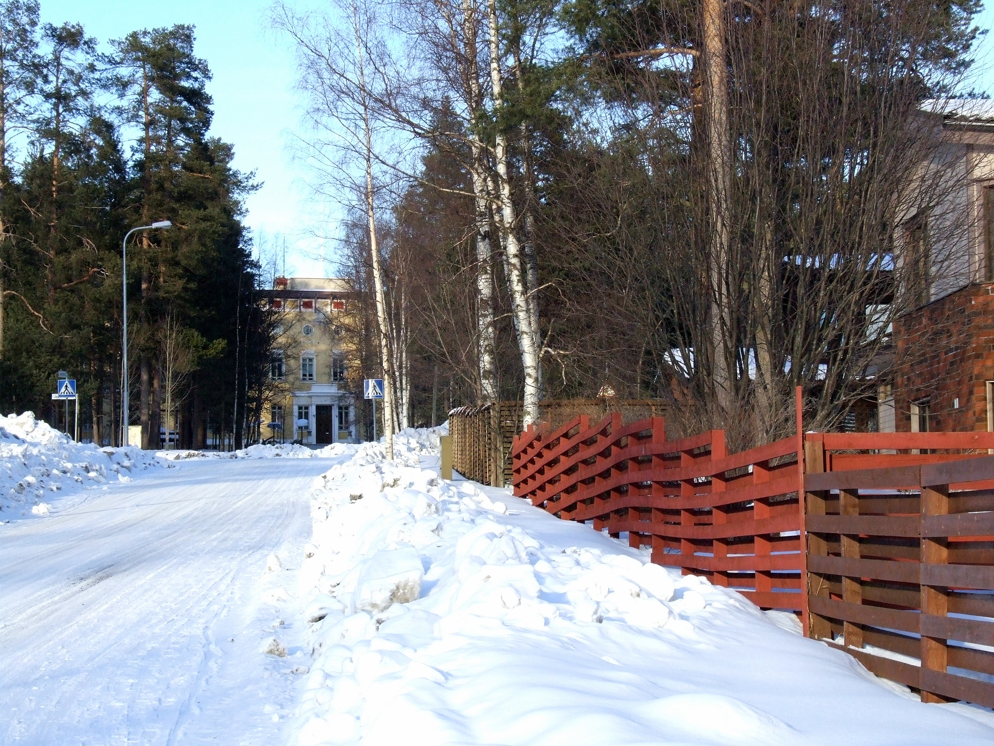 Joulumerkinrinne lane in Mäntylä neighbourhood in Oulu, Finland. The yellow building in the background is the former children's shelter "Snellman-home".